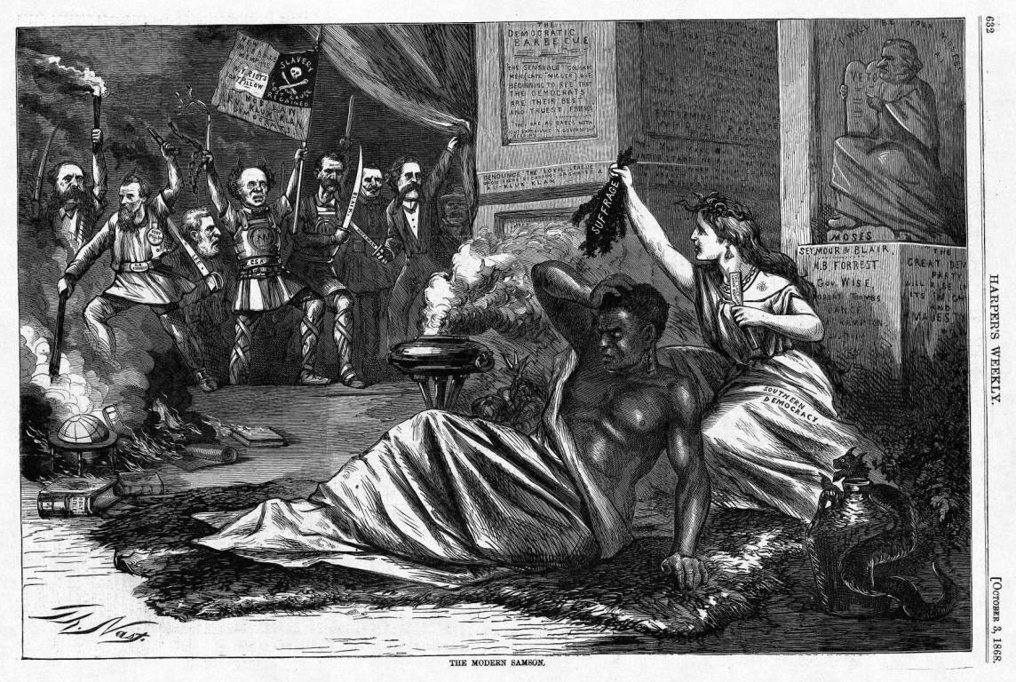 Thomas Nast's cartoon "The Modern Samson," 1868. Shows the Delilah of "Southern Democracy" (i.e. the southern Democratic party) at right displaying the cut hair of "Suffrage" to the approaching Philistines at left, while a black Samson figure slowly awakes. The caricatures of armed Democratic figures include (from left to right): Wade Hampton III with a torch held high; Nathan Bedford Forrest with a Fort Pillow Medallion; Robert E. Lee squatting; presidential nominee Horatio Seymour with hair shaped into horns, wearing a Ku Klux Klan breastplate, and carrying a C.S. flag that promotes slavery, the "lost cause" (the Confederacy), Civil War draft riots of New York City, the Ku Klux Klan, and the Reconstruction race riots in Memphis and New Orleans; wearing another Ku Klux Klan breastplate, current vice presidential nominee Frank Blair; former Confederate Rear Admiral Raphael Semmes; and 23rd New York Governor John Hoffman with a generic Catholic Irish-American under his arm. On the far right, a statue of President Andrew Johnson is likened to a "Moses" of the black Americans holding a tablet labeled "veto" to remind the audience of his recent Reconstruction legislation veto. Under the statue is a snake with horns similar to the hair of the depiction of Seymour, alluding to Satan. Opposite, on the left, a bonfire is depicted in front of them burning the Bible as well as various symbols of knowledge including books, a scroll, and a globe.